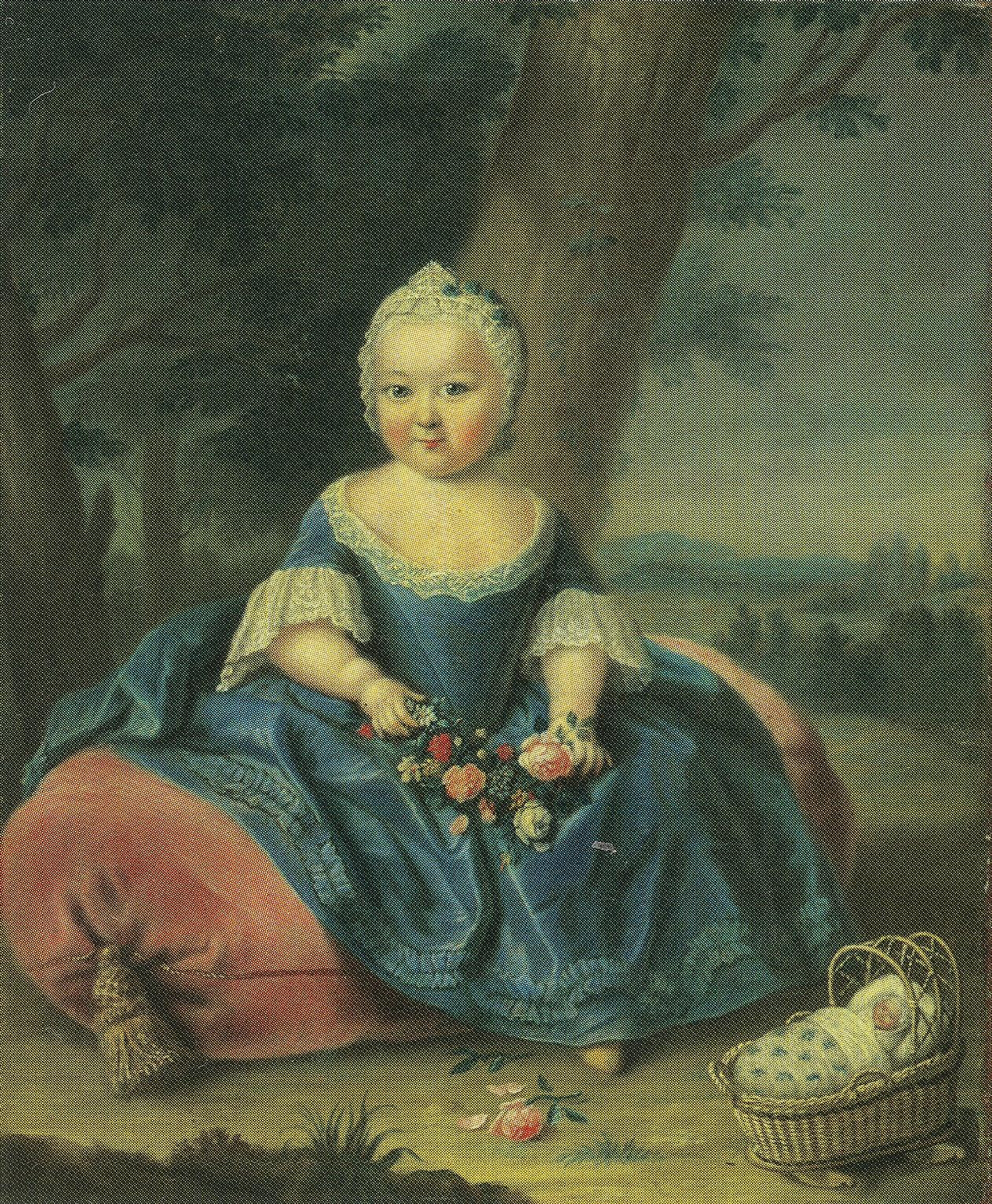 The future Empress Maria Theresa, here an Archduchess at the age of three in the gardens of Hofburg Palace.